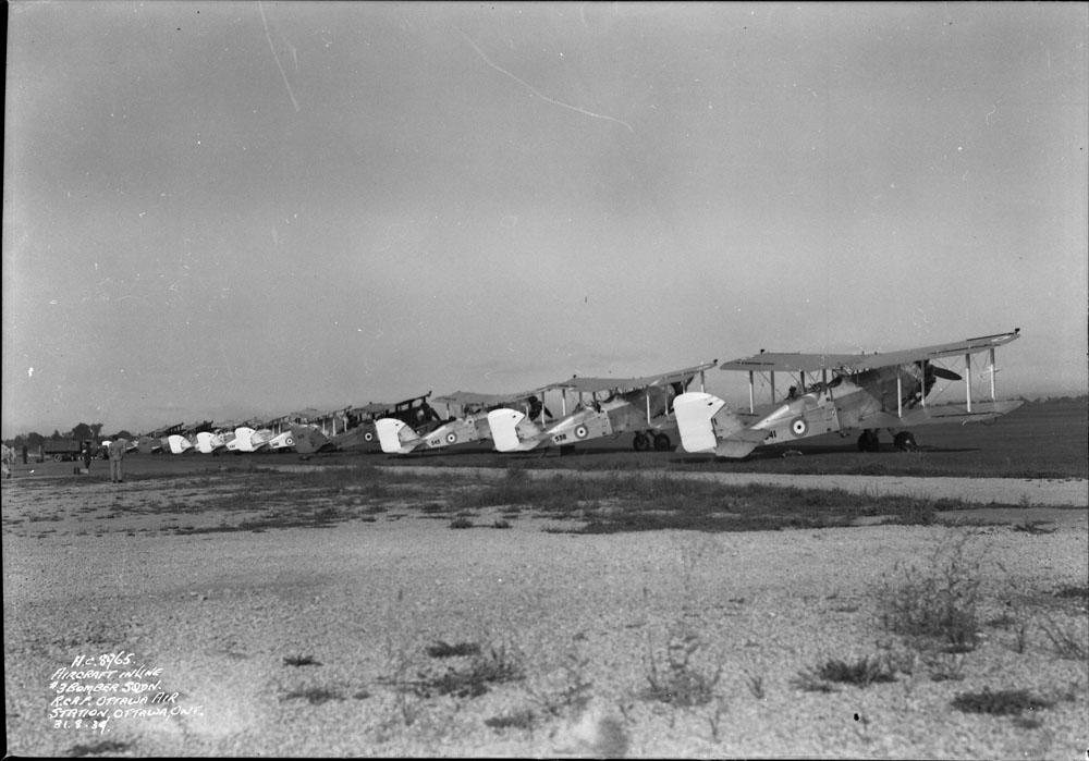 Westland Wapitis of No. 3 (Bomber) Squadron RCAF in line before departure at Ottawa Air Station